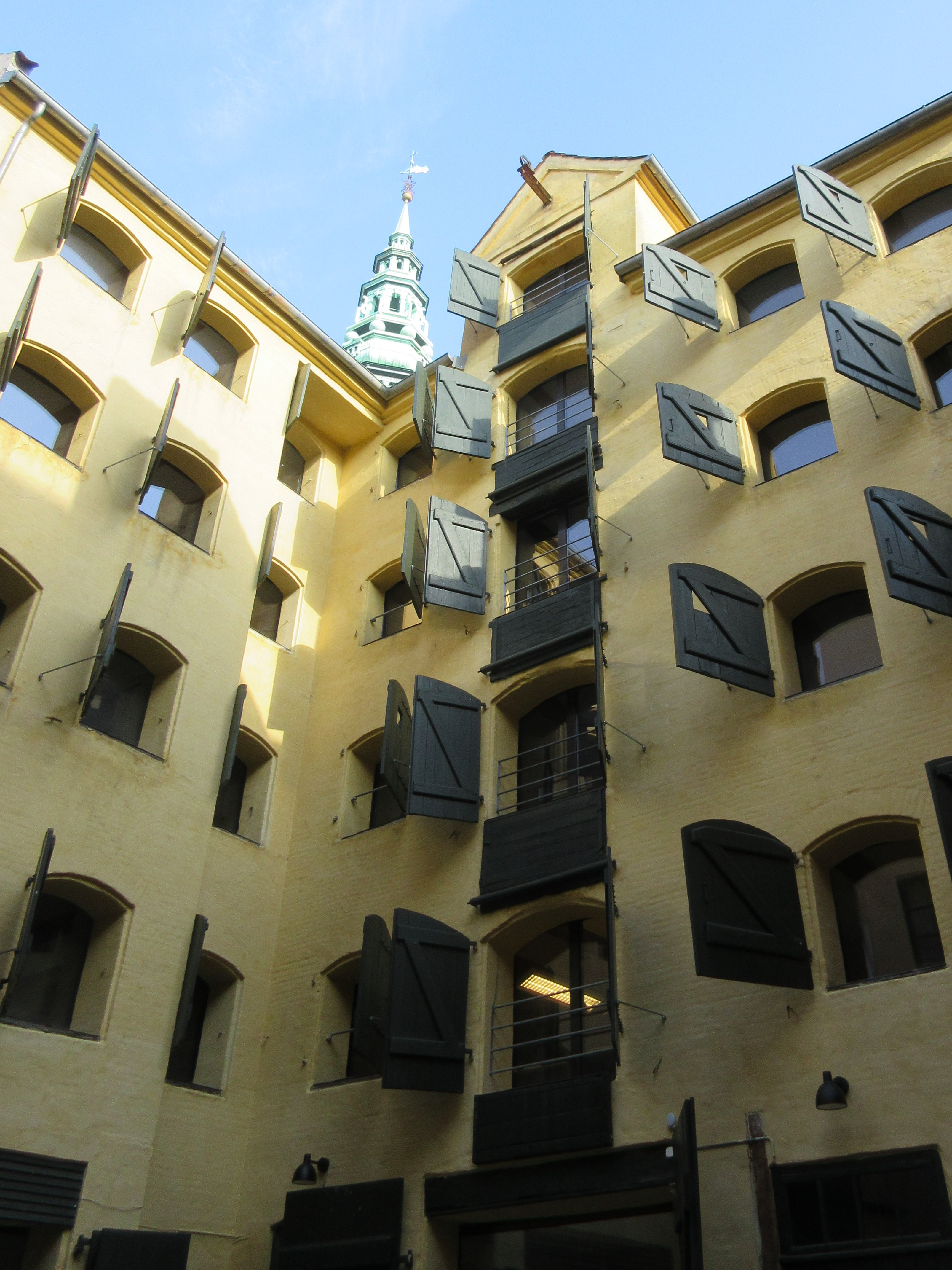 Former warehouse at Højbro Plads in Copenhagen, Denmark